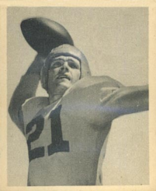 American football player Jim Hardy on a 1948 Bowman card.